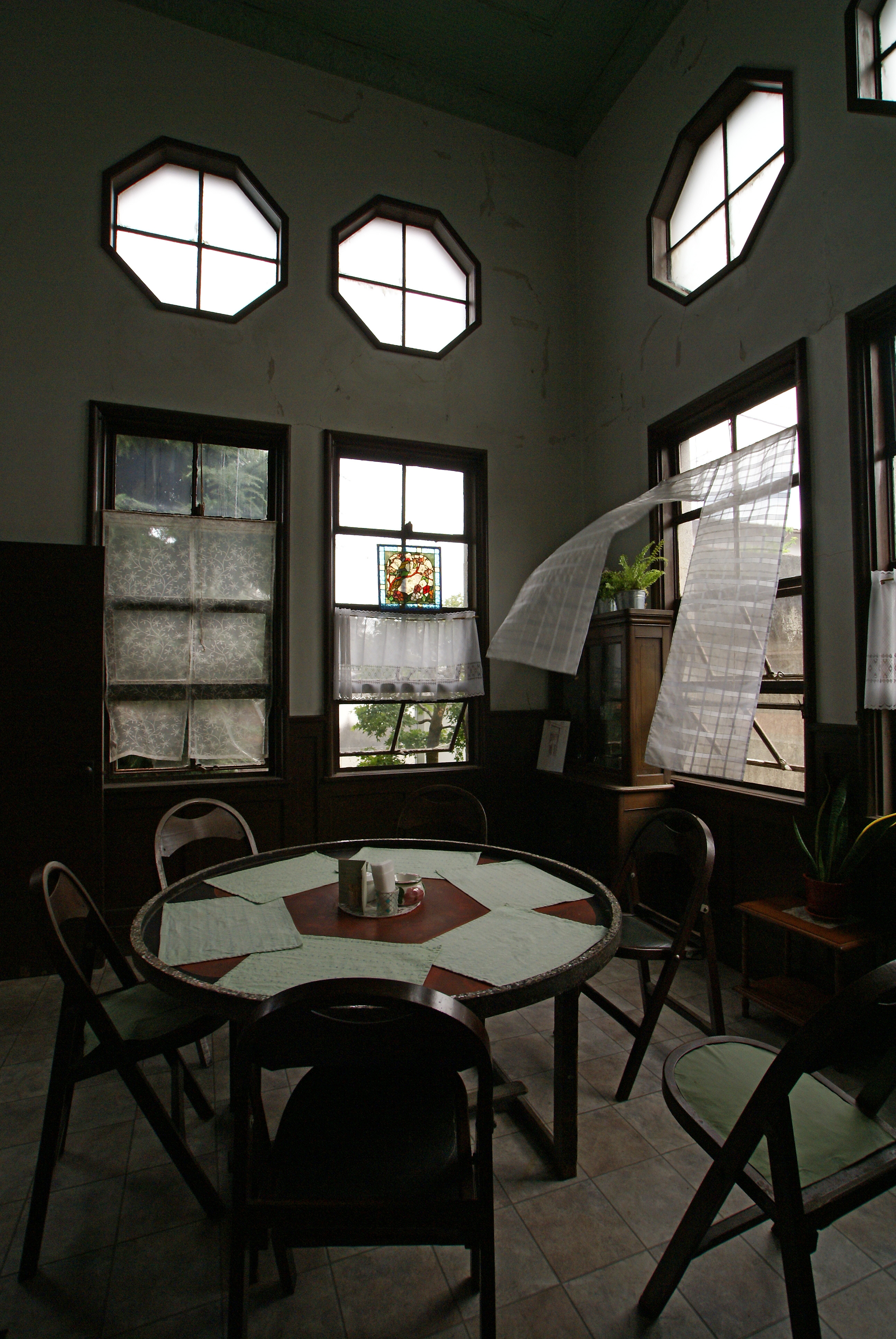 Old Hiketa Post Office in Hiketa, Higashikagawa, Kagawa prefecture, Japan